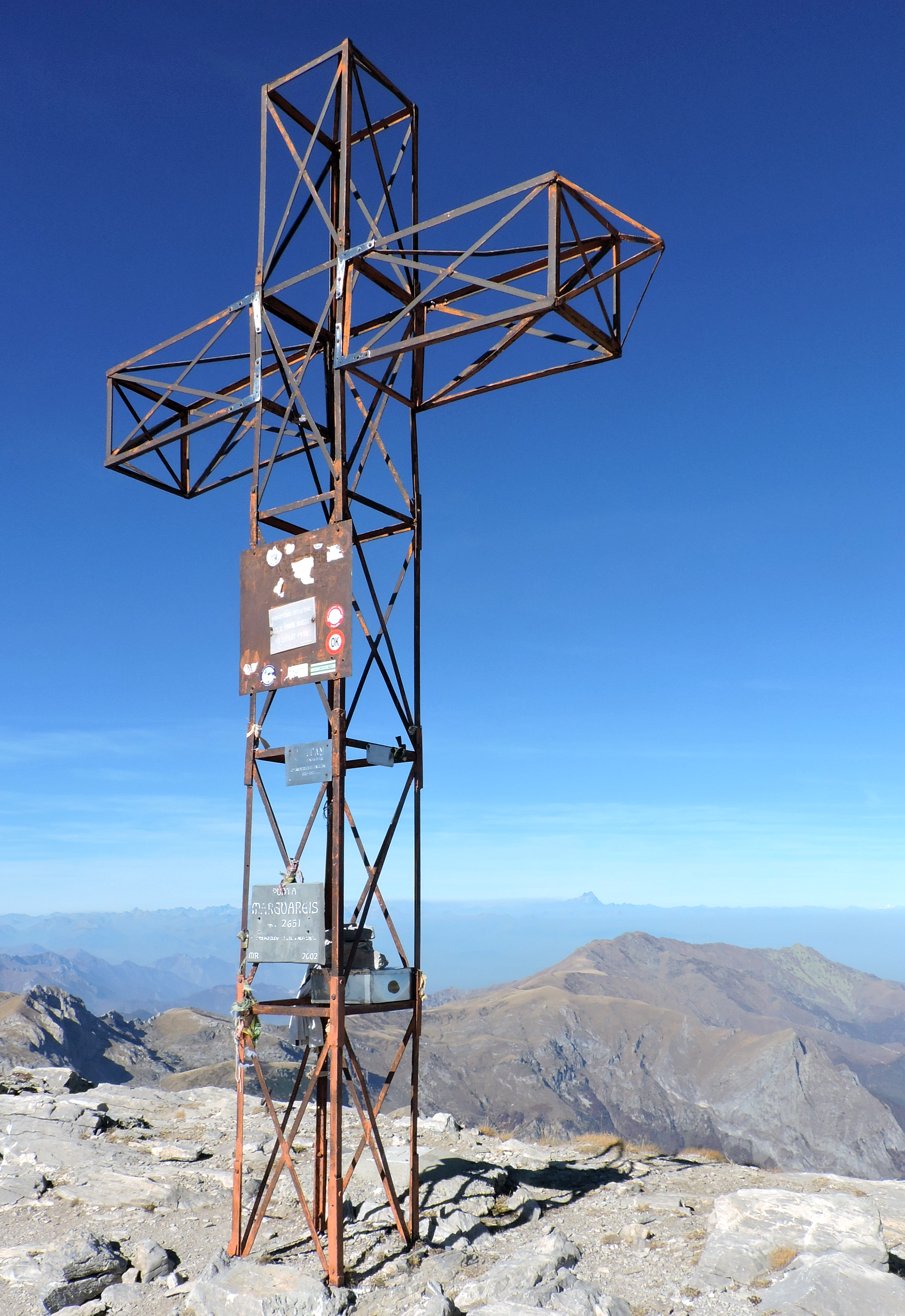 Punta Marguareis (Ligurian Alps): summit cross, Monviso in the background